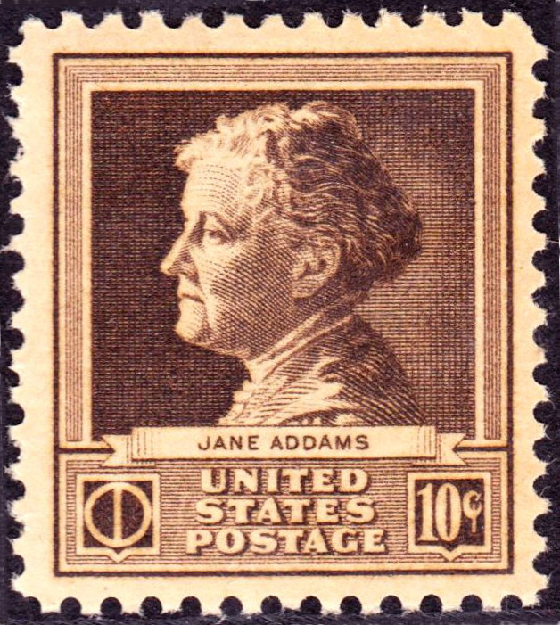 Jane_Addams_1940_Issue-10c.jpg